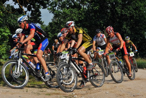 A picture from SEB MTB cross-country marathon on August 17, 2008 in Ergli, Latvia.